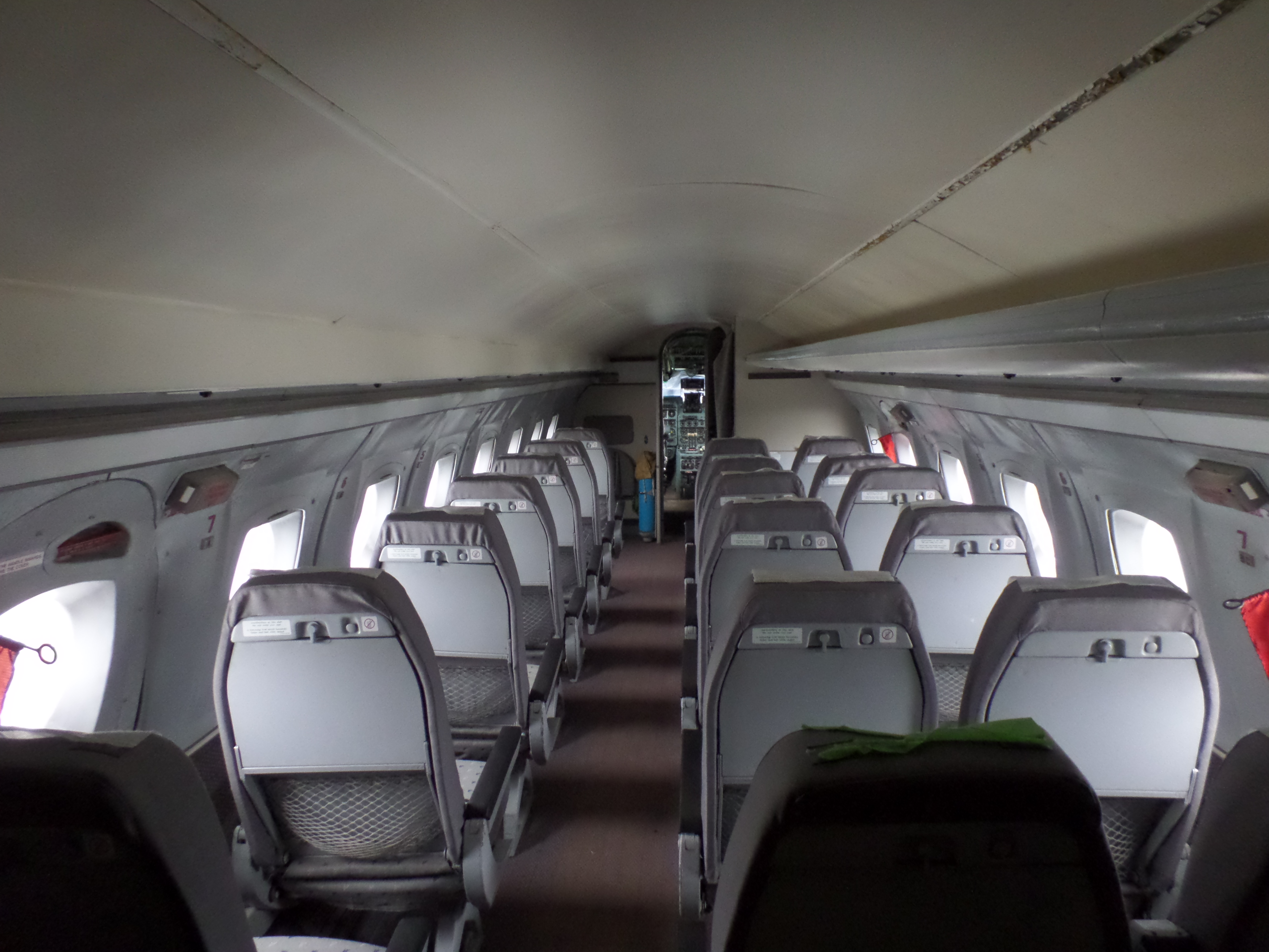 Cabin of Linair Yakovlev Yak-40 HA-LRA at Aeropark Hungary on 20 October, 2016.